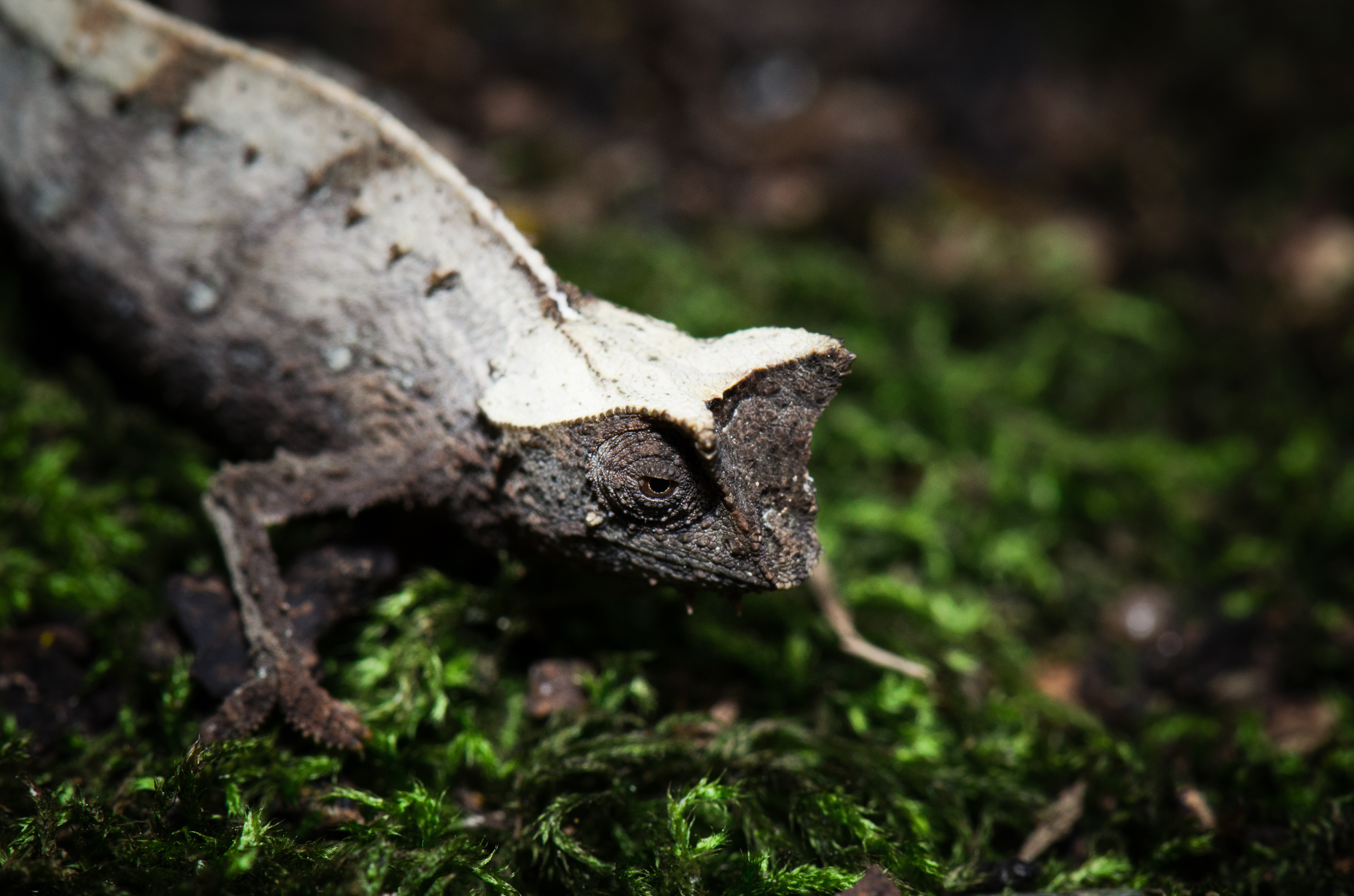 Brookesia thieli in Madagascar